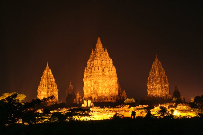 Prambanan temple complex, taken at night. (cropped version from the original)